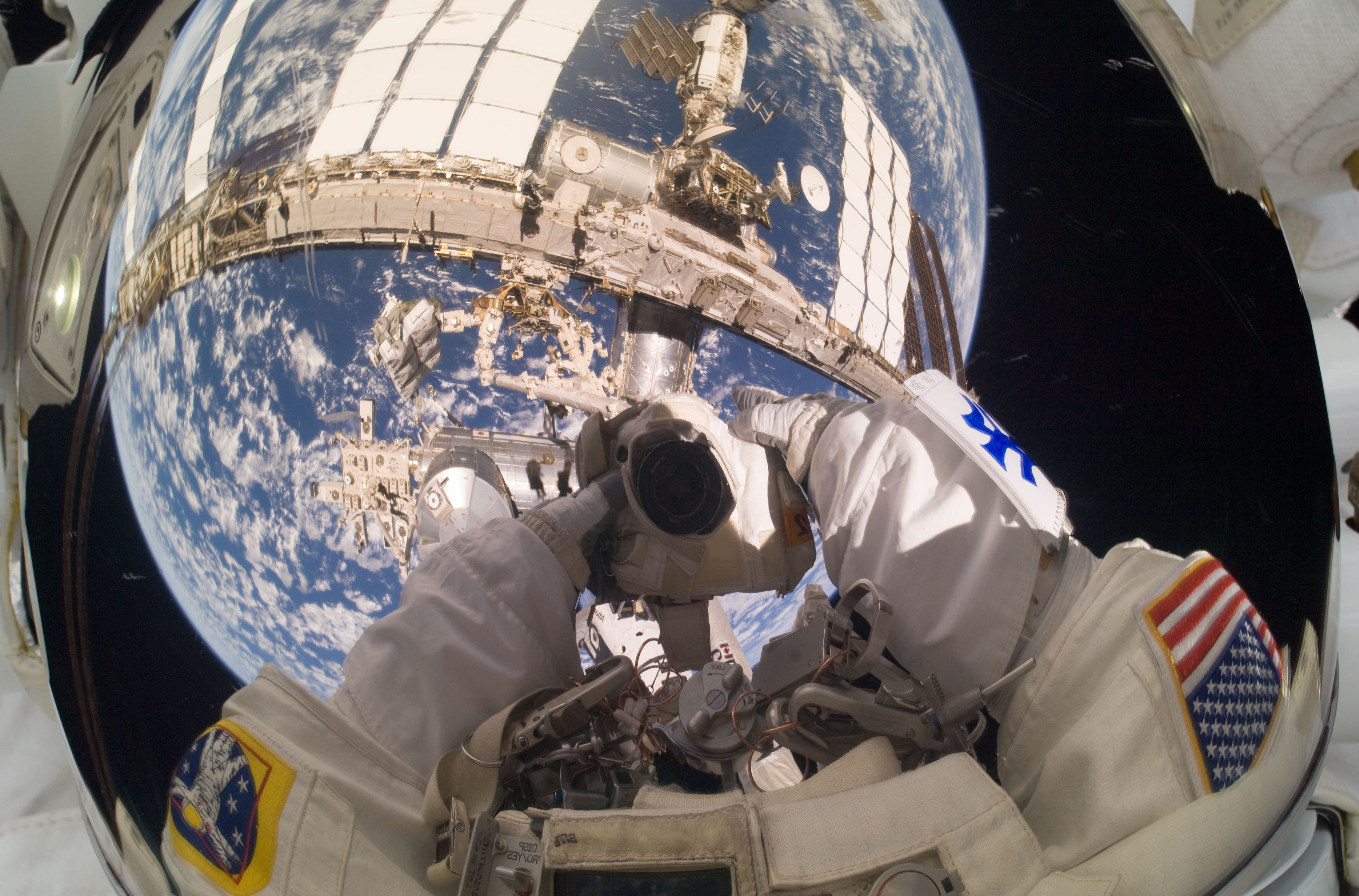 NASA astronaut Garrett Reisman, STS-132 mission specialist, takes a busy "self portrait" into his helmet visor while participating in the first of three spacewalks scheduled for the Atlantis crew and their Expedition 23 hosts. Part of the space station and the blue and white Earth are among the objects seen in his visor. Astronaut Steve Bowen, mission specialist, is out of frame.